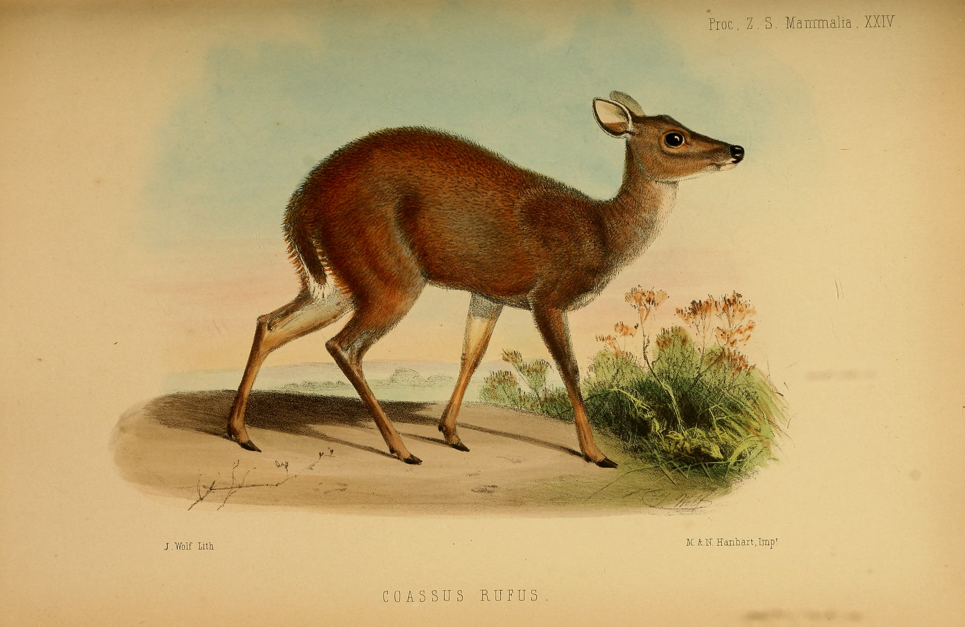 Red Brocket doe from Knowsley Hall menagerie, 1850